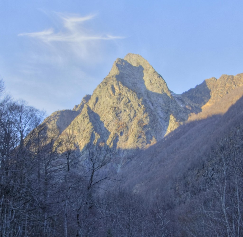 La Dent d'Orlu, 2222 m, Pyrénées, France